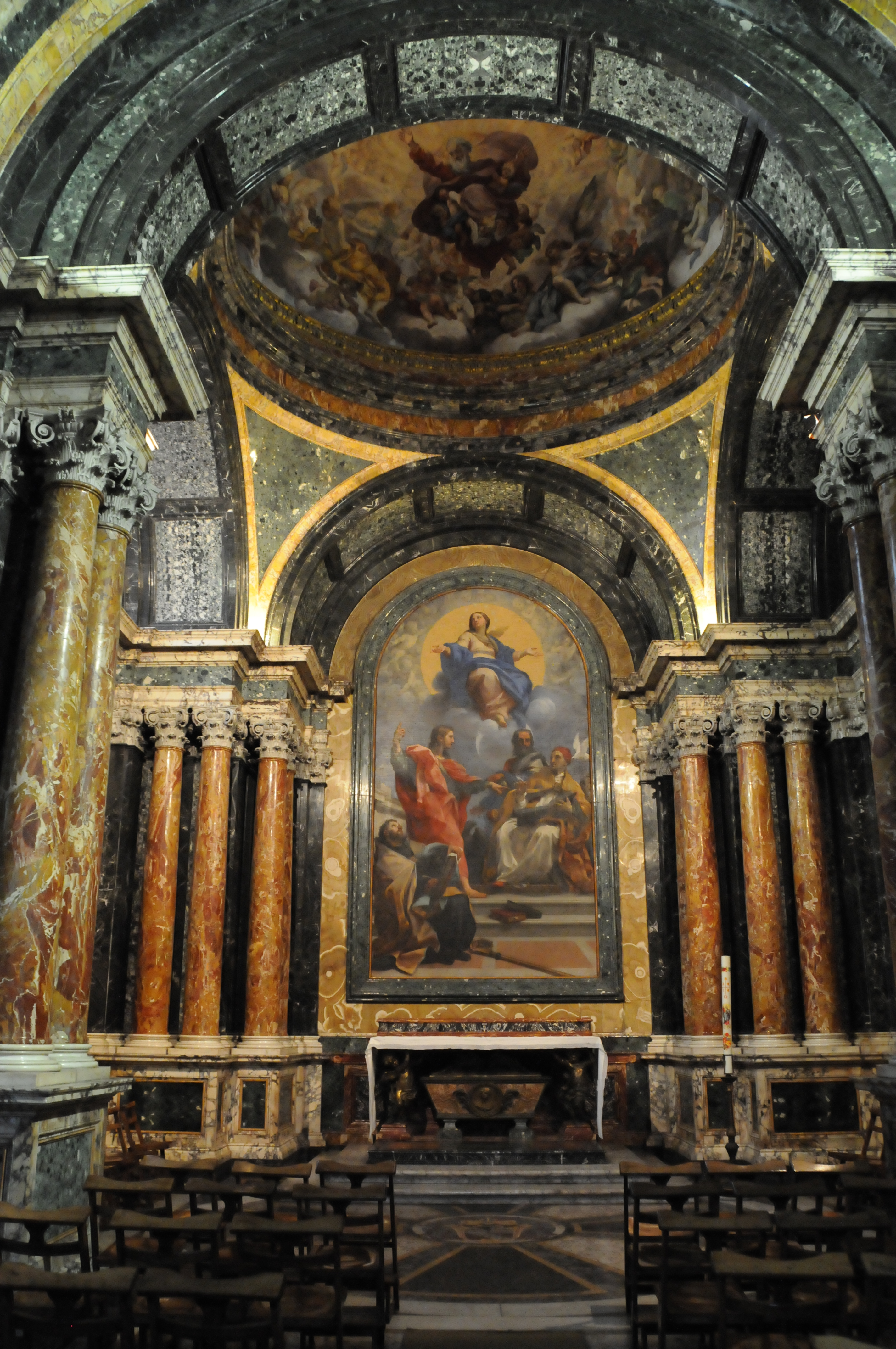 Photo of the Cybo Chapel of Santa Maria del Popolo, Rome, Italy.